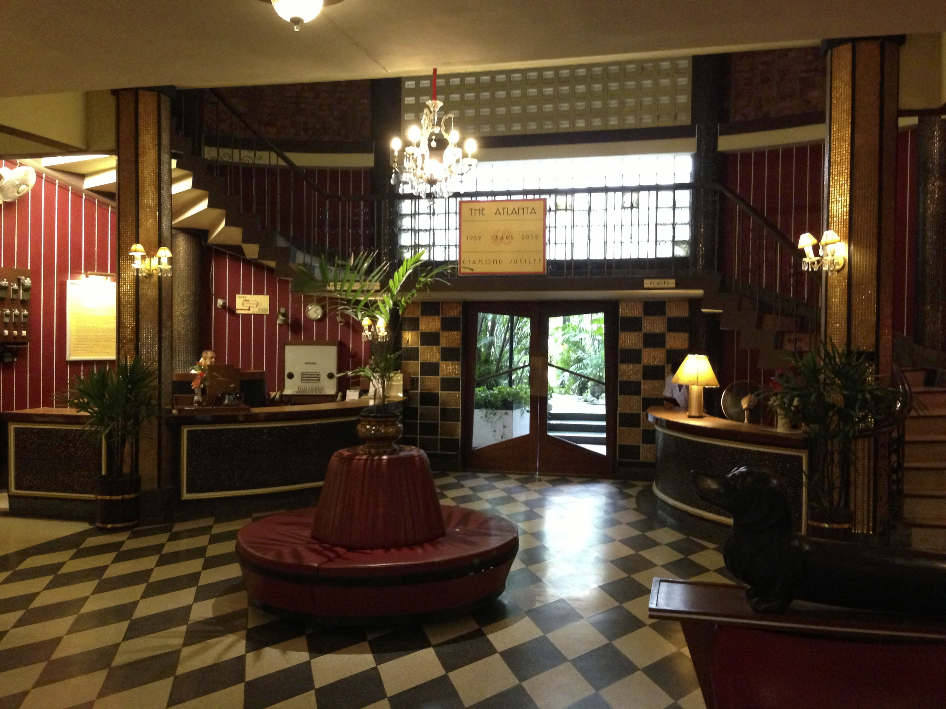 The Atlanta Hotel is a real on of a kind. The lobby preserves a real 1950's style, the rules and there are many rules are displayed everywhere. At first you might be put off by it all but the Hotel is well run, the staff is friendly and the price is great. From $30.00 a night as of early 2014.